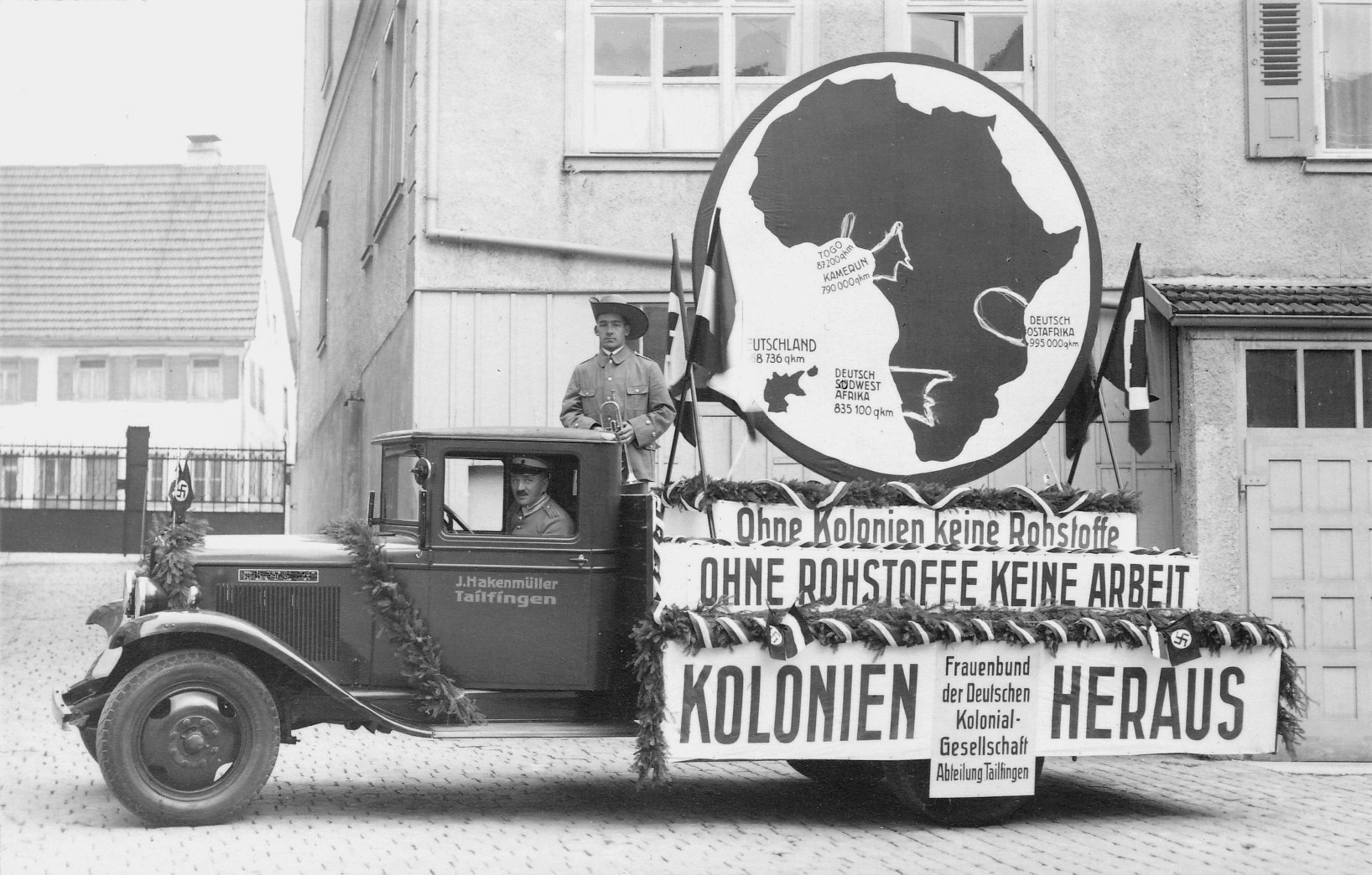 Since 1933 Helene, the wife of Paul, one of the chief of the 1887 in the today Albstadt-Tailfingen in South-Western-Germany founded textile-enterprise J.Hakenmüller engaged a leader of a district-group for the German Colonial-Society, which aimed to remember, that up to the end of the First World War some countries in Africa officially belonged to the German Rike, like for example German South-West-Africa, now Namibia. That´s why Helene used sometimes J.Hakenmüller-Transporters for public representation, until in february 1936 a heavy accident with her car stopped her engagement, while she had to suffer with nervous head-ache and difficulties for a long time of years.